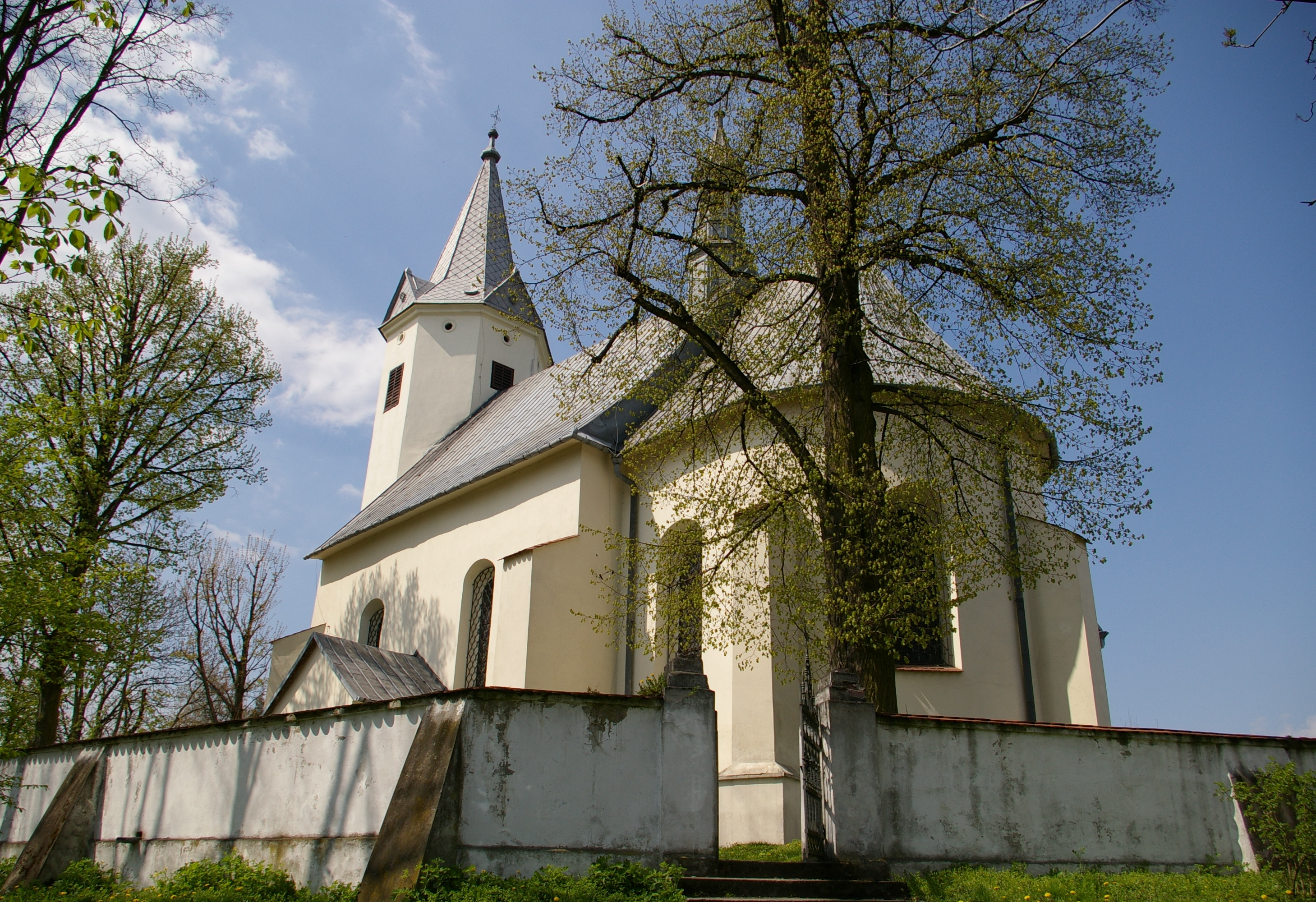 Parish church in Korzkiew, Poland